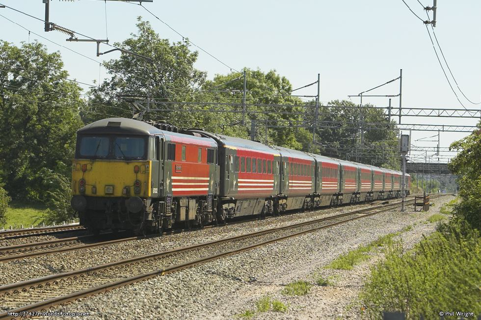 This is a photo by Phil Wright from It is a Virgin Trains British rail class 87 electric locomotive and train.